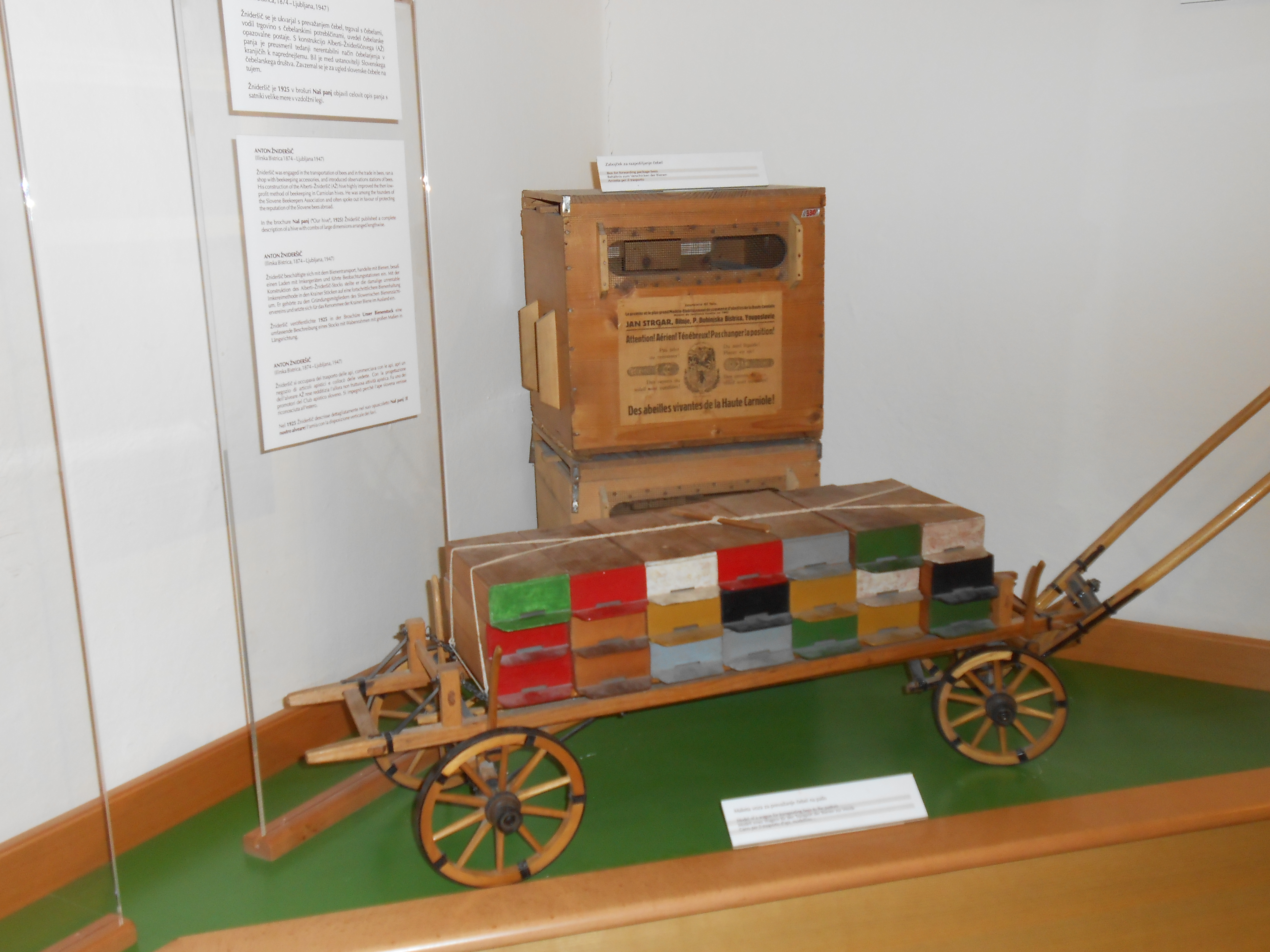 Museum of Beekeeping, Radovljica, Slovenia 05